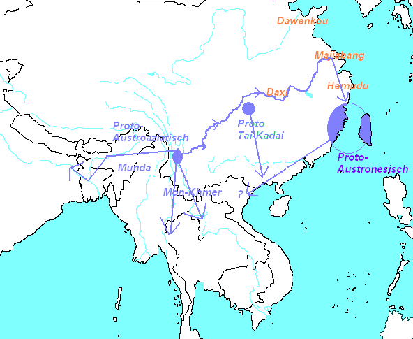 Austric homeland and relationships between Proto-Austronesian and neolithic cultures at Yangzi, according to Robert Blust (Beyond the Austronesian Homeland: the Austric Hypothesis and its Implications for Archaeology)